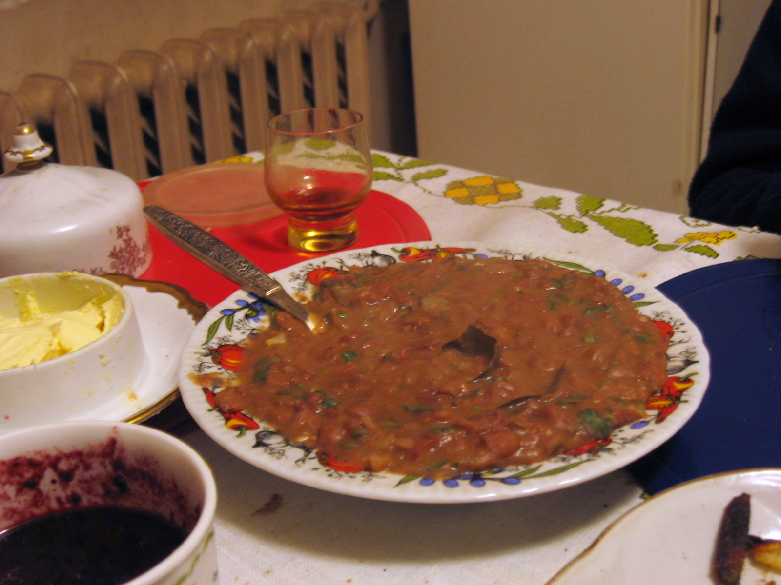 Dish of Lobio